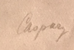 Signature of Paul Kaufmann, born 1896 in Nümbrecht, as commercial artist with his pseudonym "Caspary"